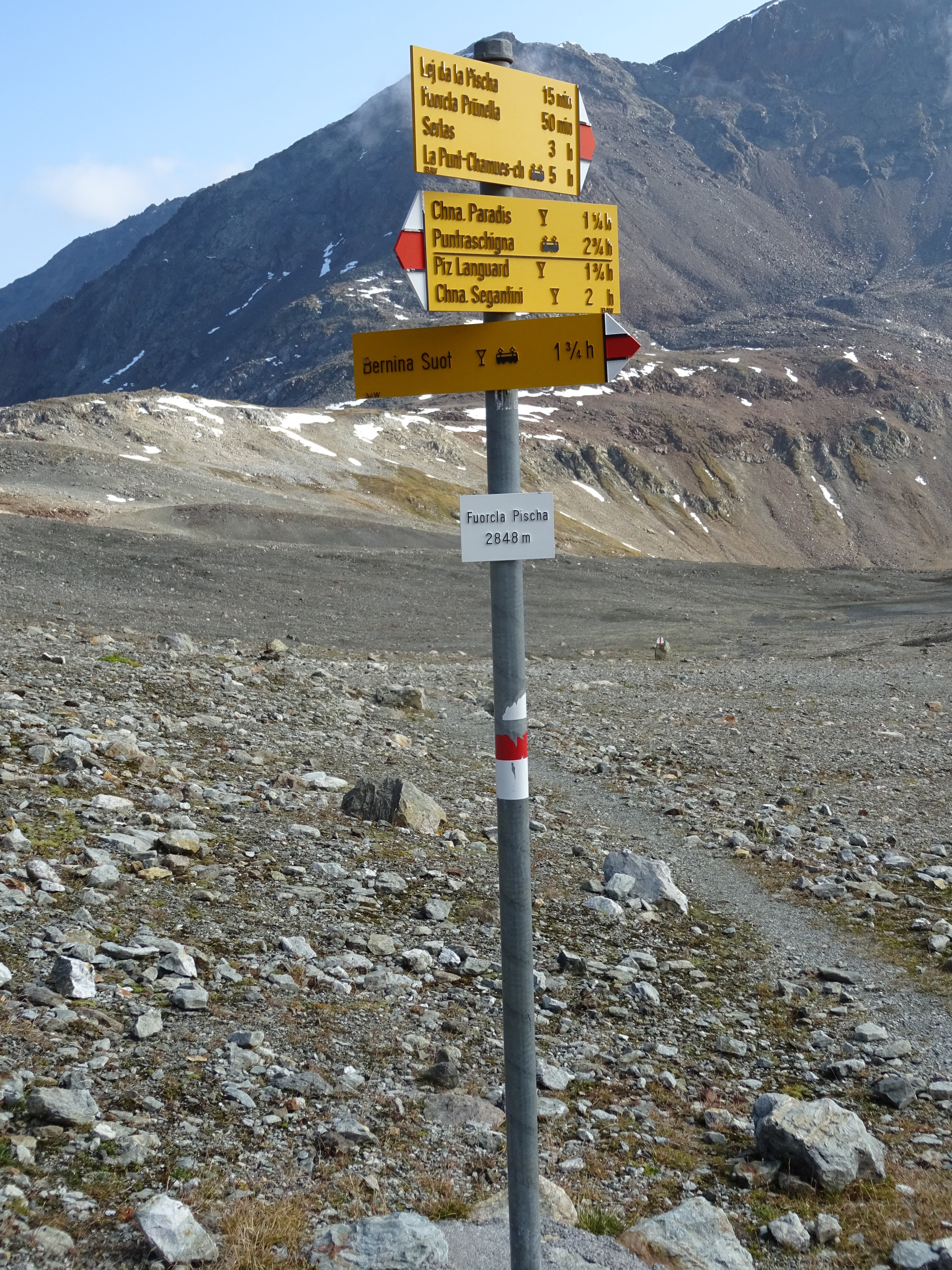 Fingerpost near Fuorcla Pischa (Pontresina, Grison, Switzerland)